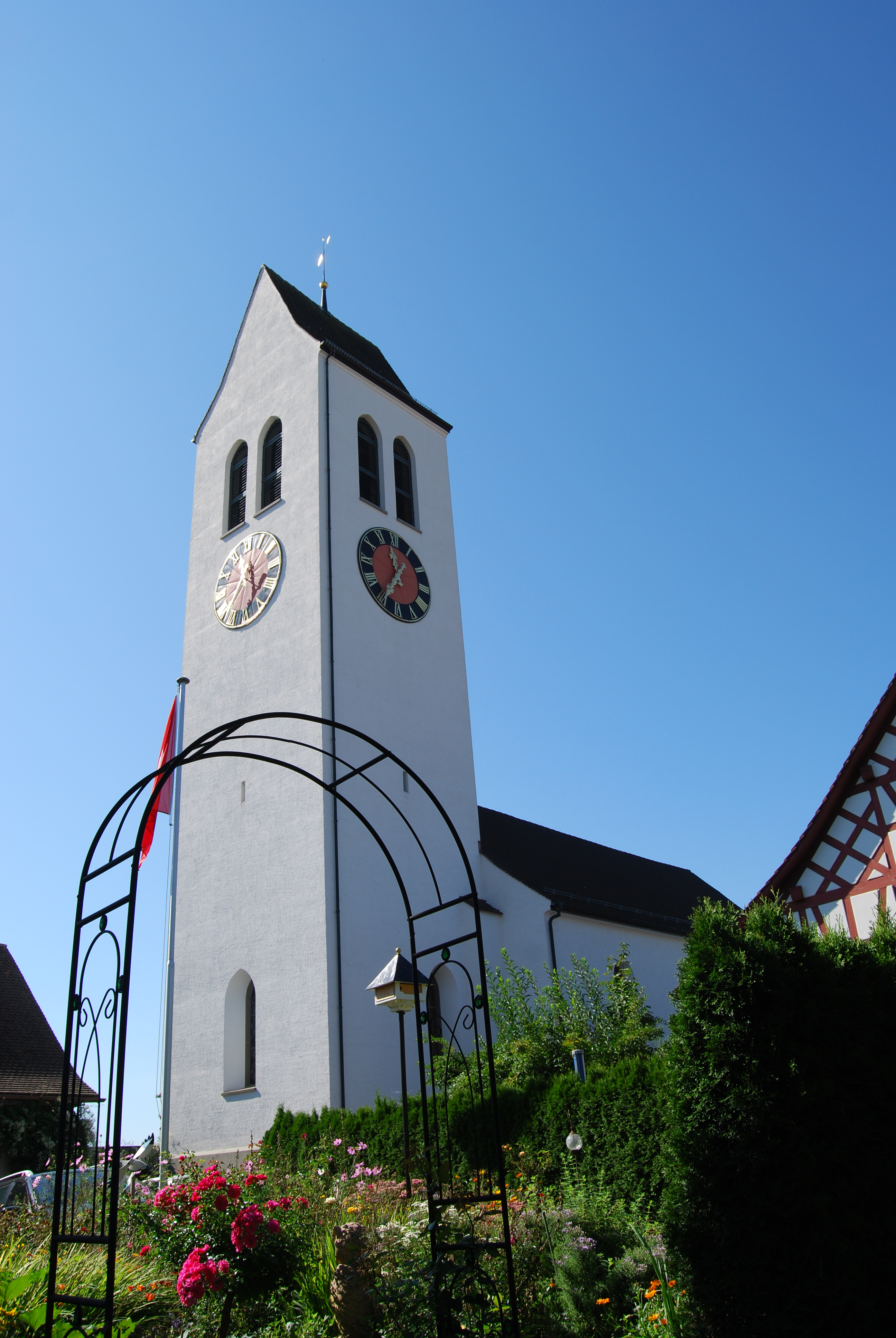 Church of Ossingen, canton of Zürich, SwitzerlandEsperanto: Preĝejo de Ossingen, Kantono Zürich, Svislando